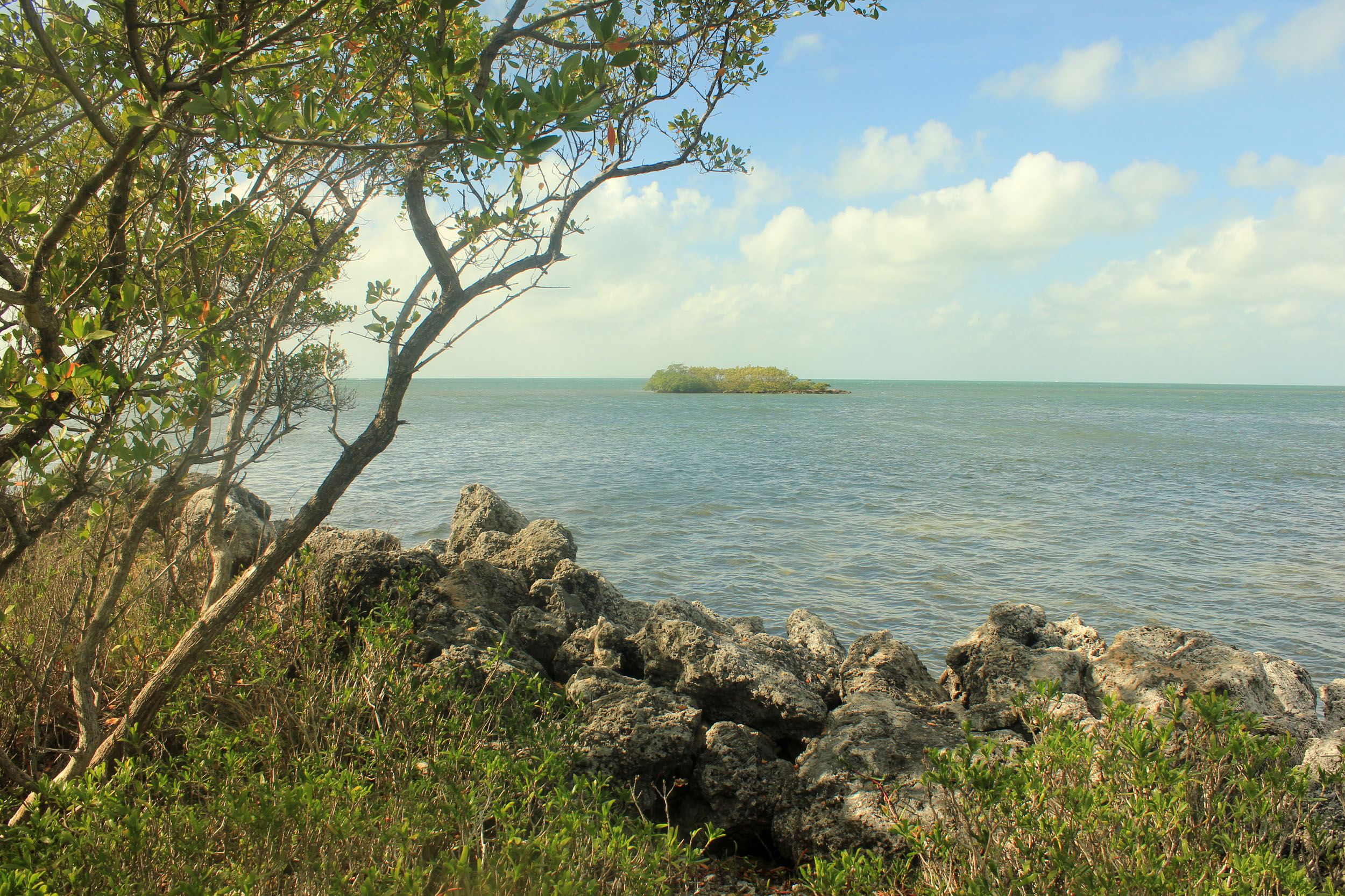 Pictures taken in the Marathon Islands(like Marathon Key) within the Florida keys. Free stock photos and public domain pictures of the Marathon islands in the F An ocean landscape from the Marathon Islands